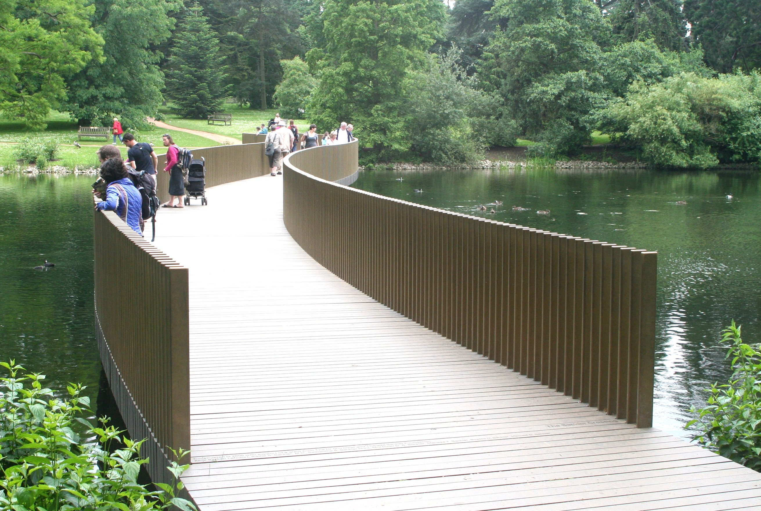 The Sackler Crossing at Kew Gradens